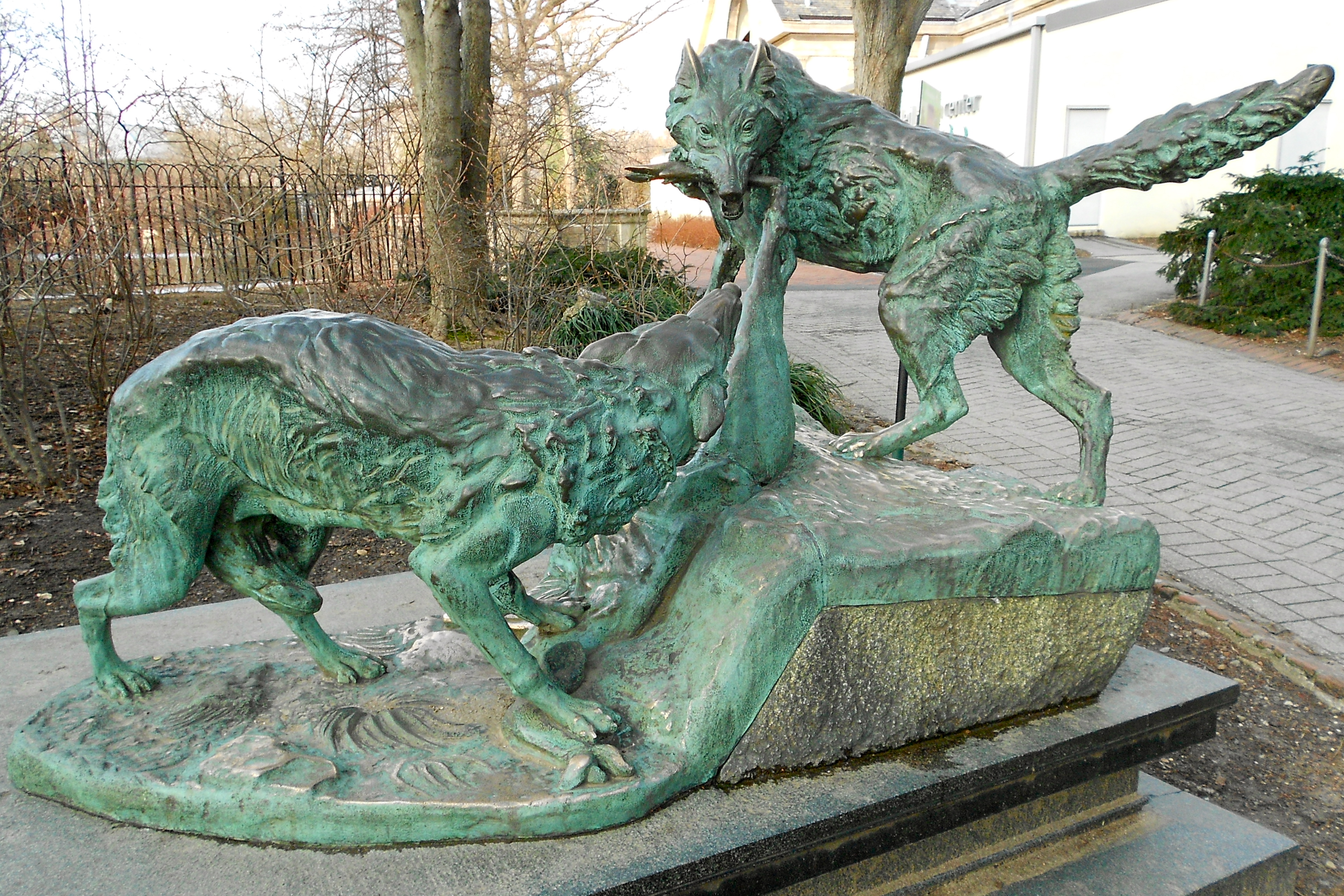 Artist: Kemeys, Edward, 1843-1907, sculptor. Robert Wood & Company, founder. Title: Hudson Bay Wolves, (sculpture). Date: 1872. Installed 1873. Relocated 1956. Relocated 1973. Medium: Sculpture: bronze; Base: dark polished granite. Owner: Philadelphia Zoological Garden, Philadelphia, Pennsylvania SIRIS Control_Number: 75009331